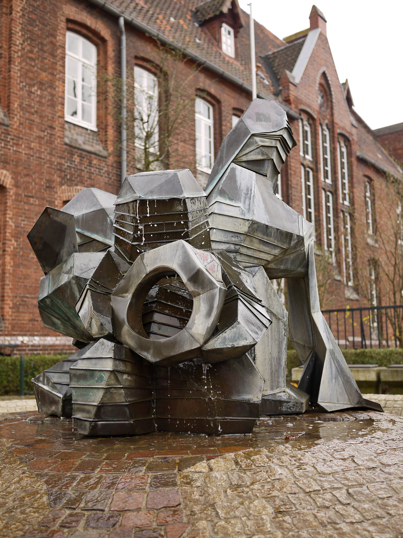 Fountain of dwarfs in the City of Hoya/Weser (Lower Saxony/Germany)